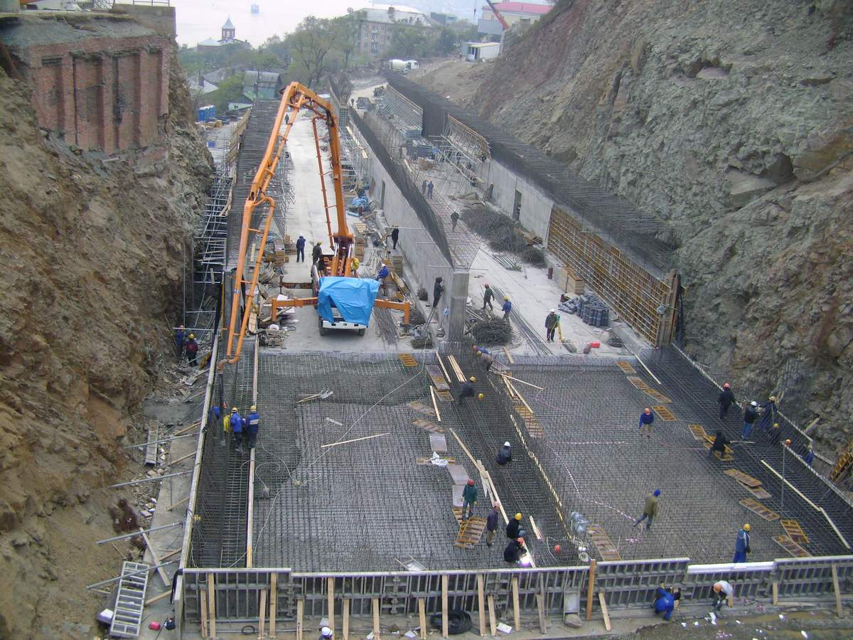 The Tunnel at the Entrance to Golden Horn Bridge, under Construction in Vladivostok, Russia, 15.10.2008.